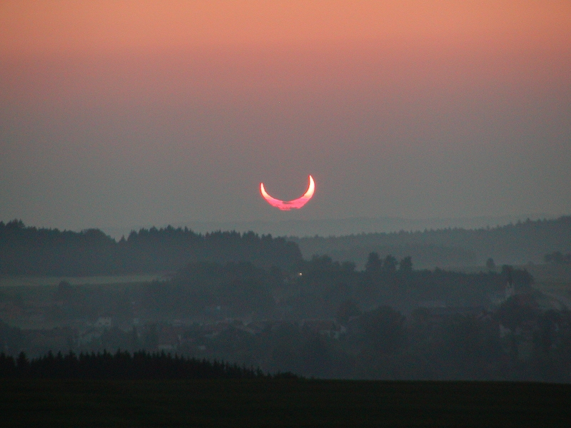 The solar eclipse of 2003 May 31 in its final partial phase a few minutes after sunrise, as seen from southern Bavaria. Location 47.9°N 12.7°E. Time 05:20:57 Central European Summer Time. Camera Olympus C700UZ.